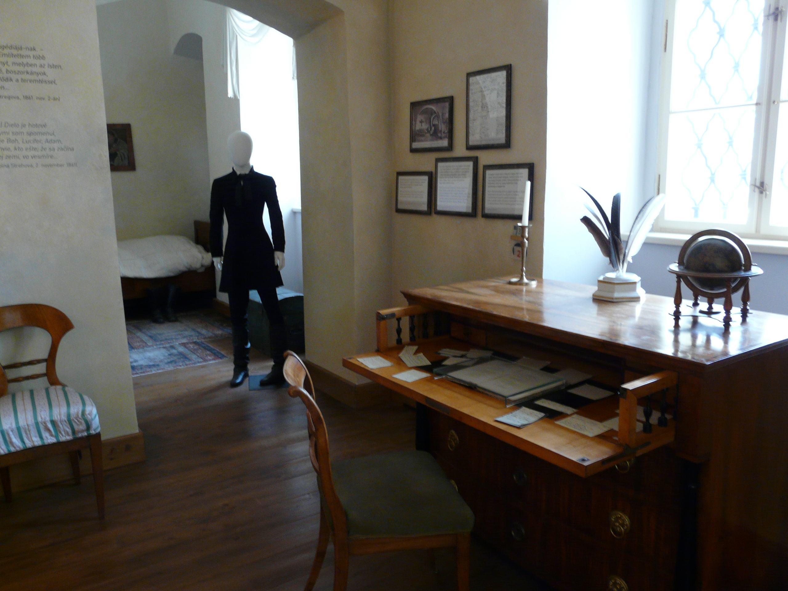 Writer's room in the permanent exhibition in Madách Mansion. Dolná Strehová, Slovakia